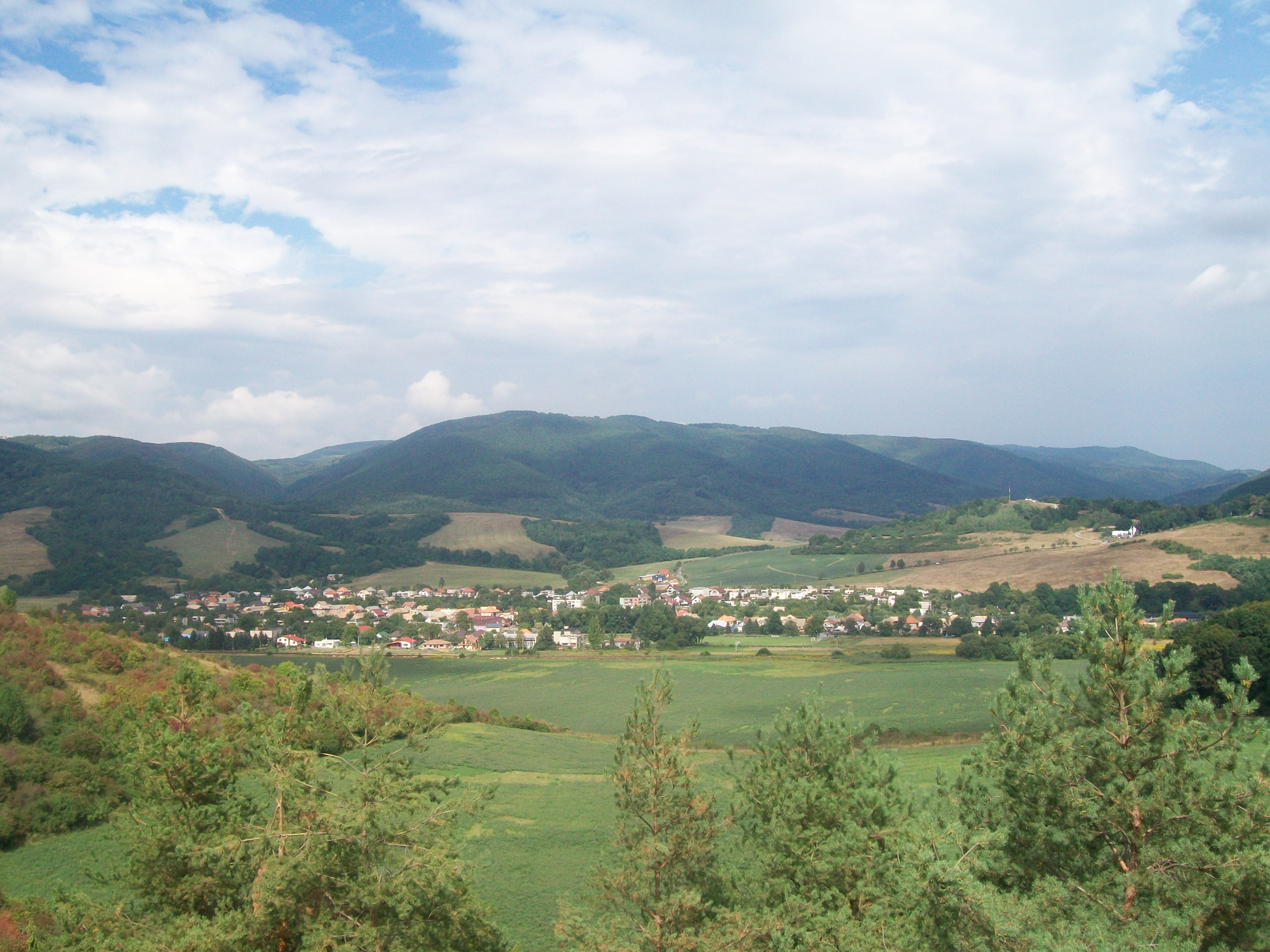 View of the village Mýtna from the south (from Hunter's booth)